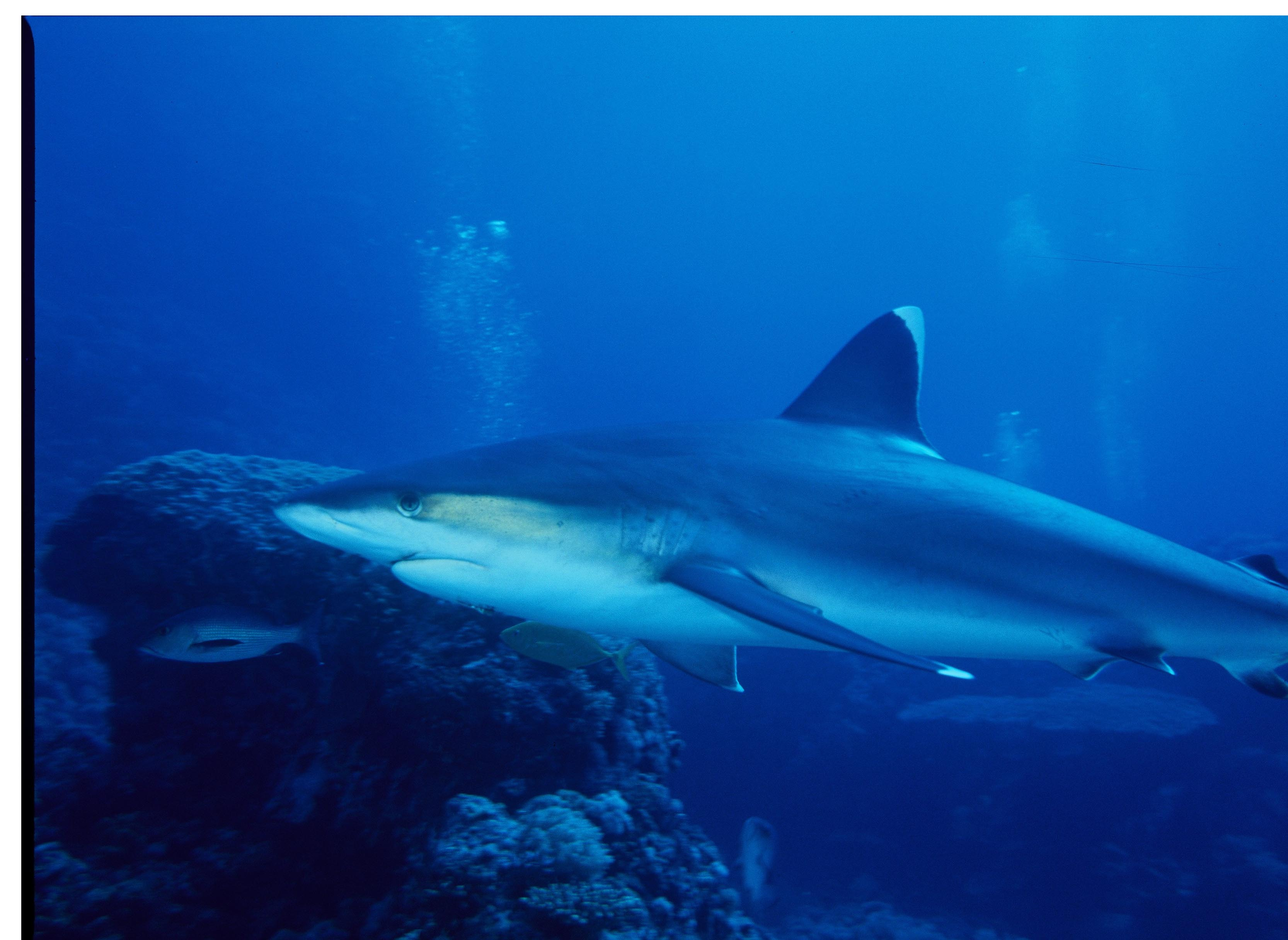 carcharhinis albimarginatus